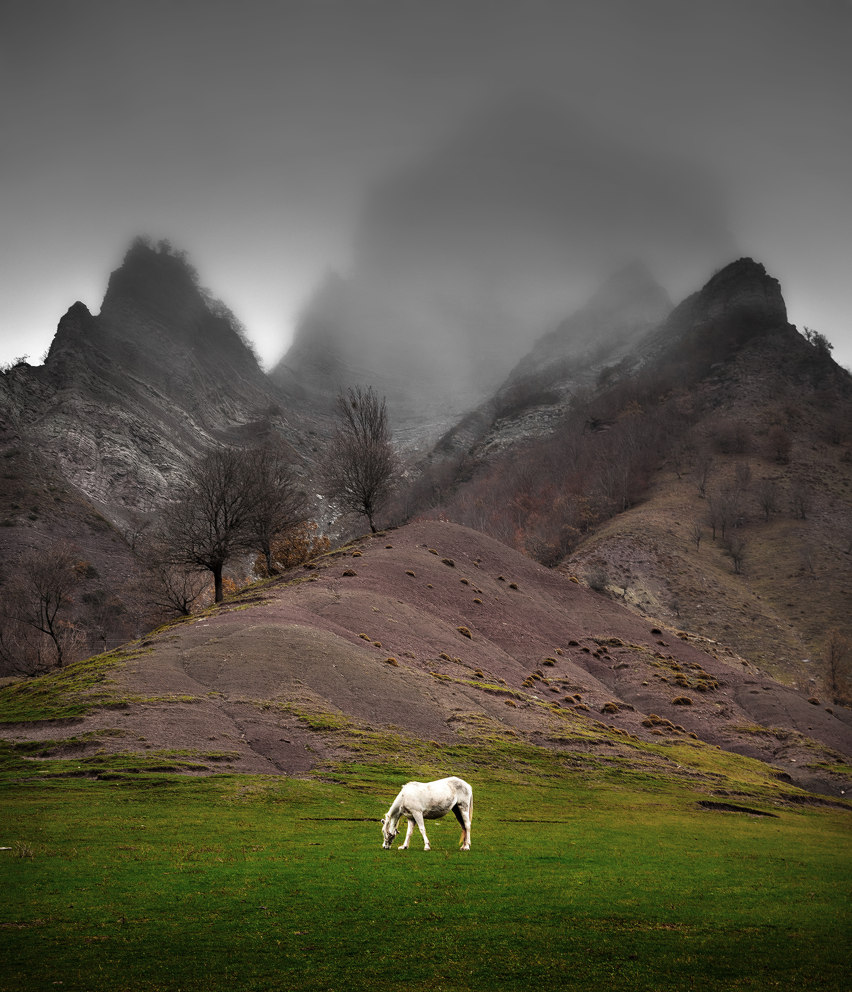 Shahdag National Park, Azerbaijan